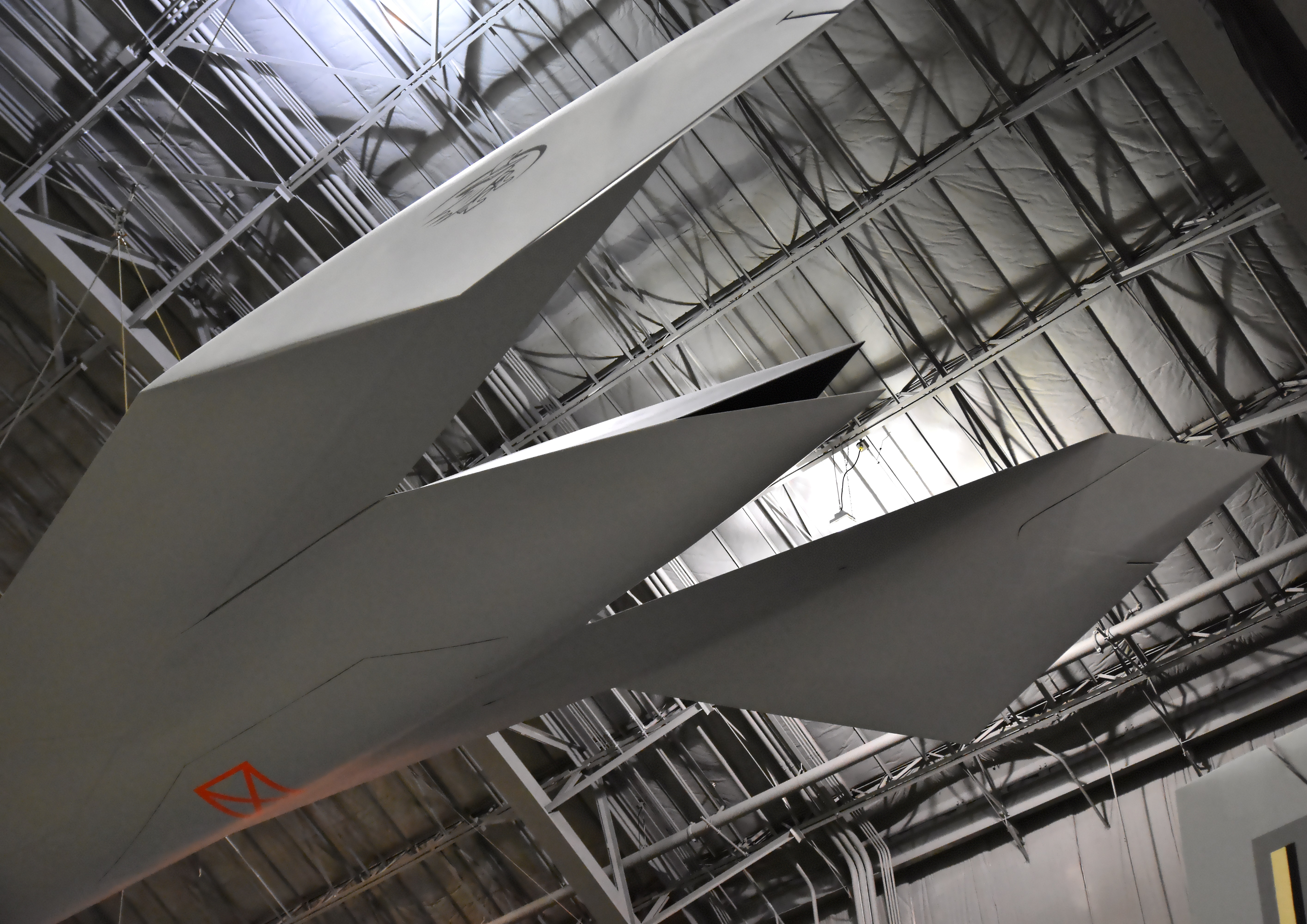 McDonnell Douglas / Boeing Bird of Prey @ National Museum of the United States Air Force